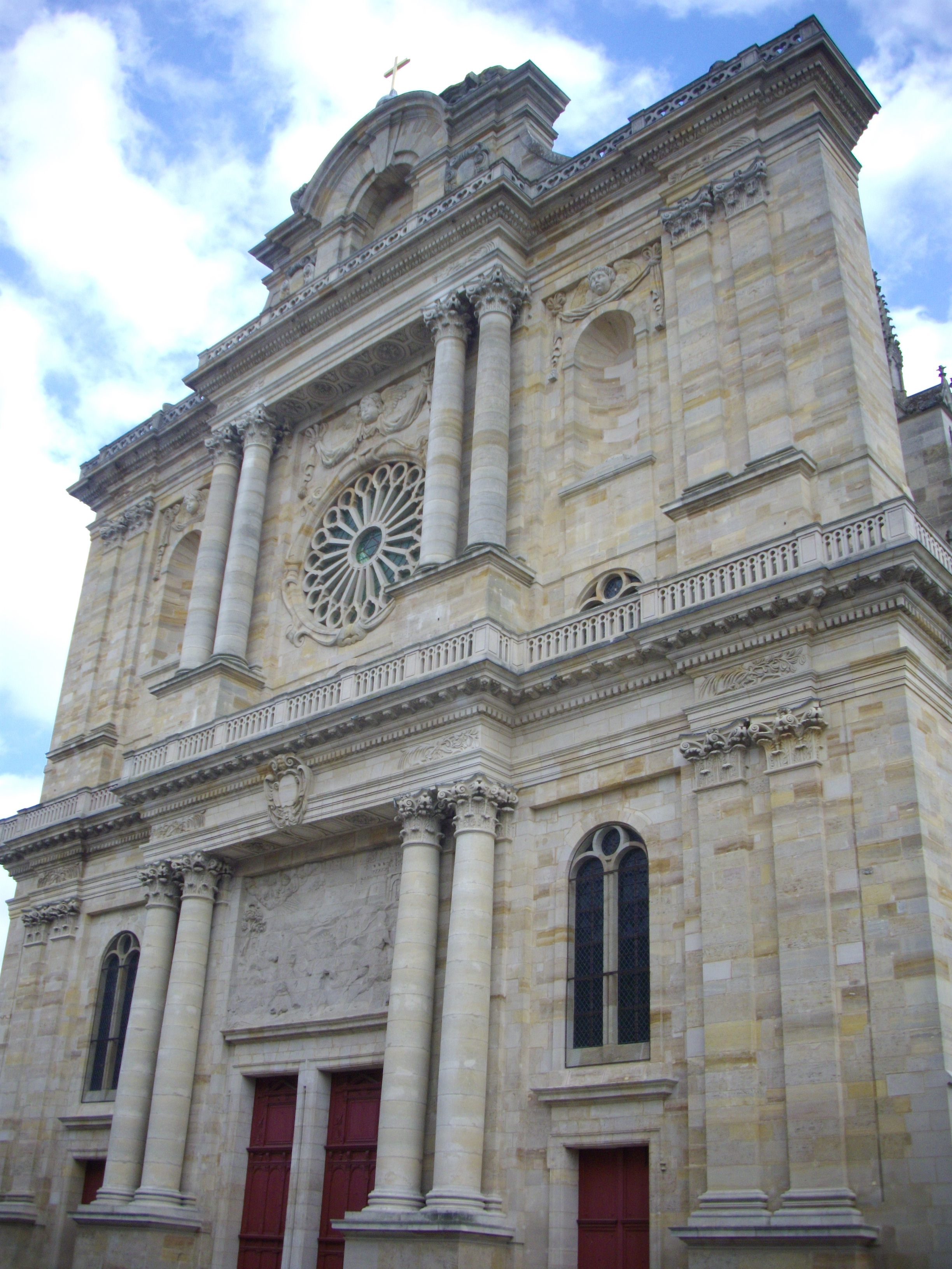 Saint Stephen cathedral of Châlons-en-Champagne (Marne, France), facade on Saint Stephen square